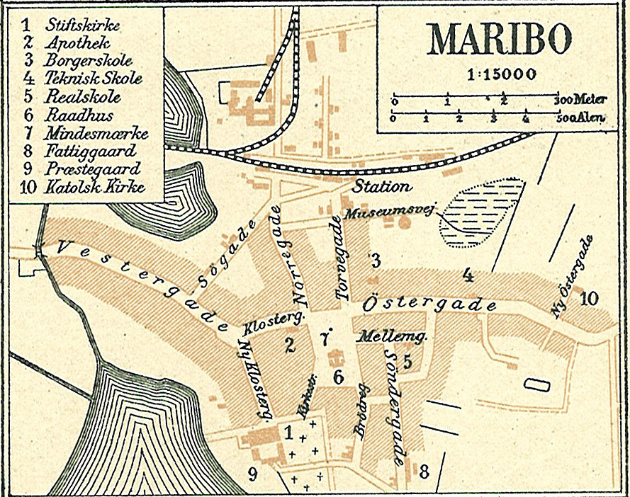 Map of Maribo on Lolland in Denmark